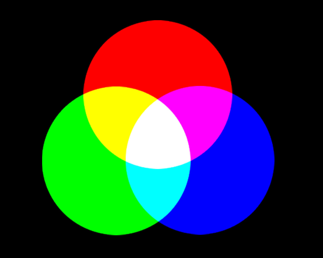 Red, yellow, green and blue, basic colors